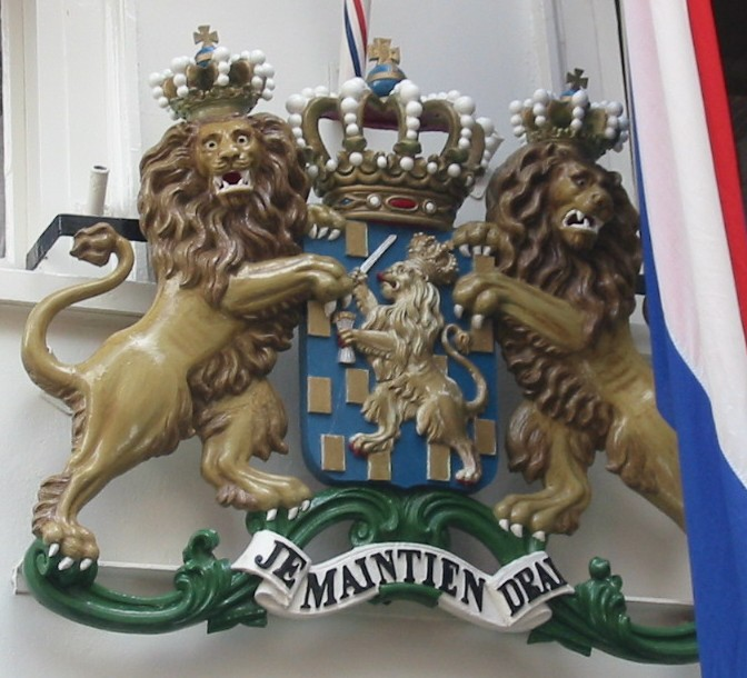 Coat of arms of the Kingdom of the Netherlands as used from 1815 to 1907. Original hangs on a wall at the "Hoogstraat" in The Hague, The Netherlands